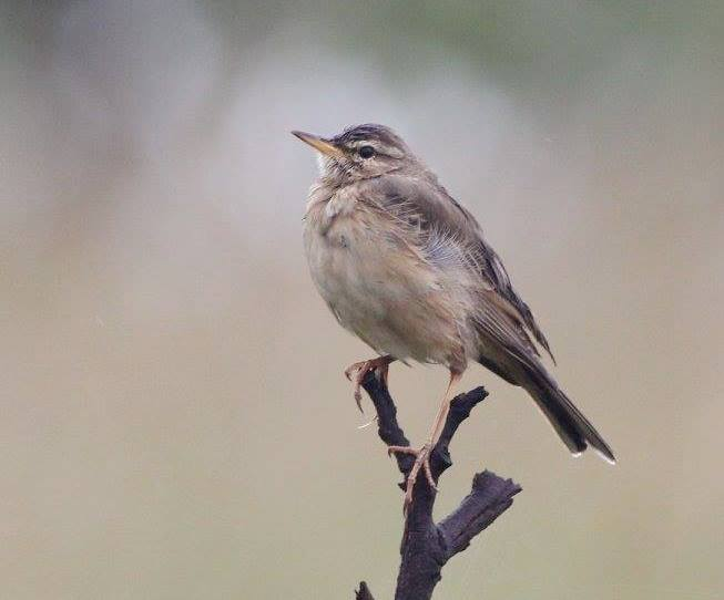 Wood pipit near the source of the Cuanavale River in Angola